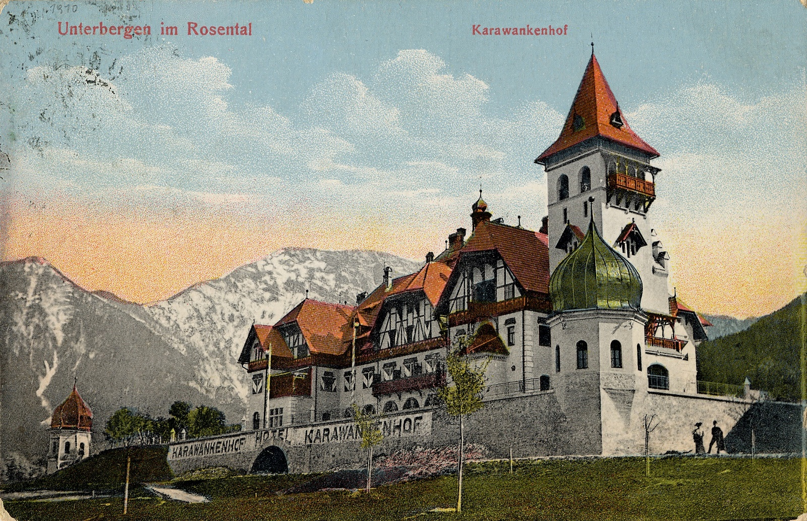 The burnt down old Hotel Karawankenhof near Ferlach / Carinthia / Austria / European Union. Brief description: timber framing, towers, onion tower, at the turn of the century, tourism.